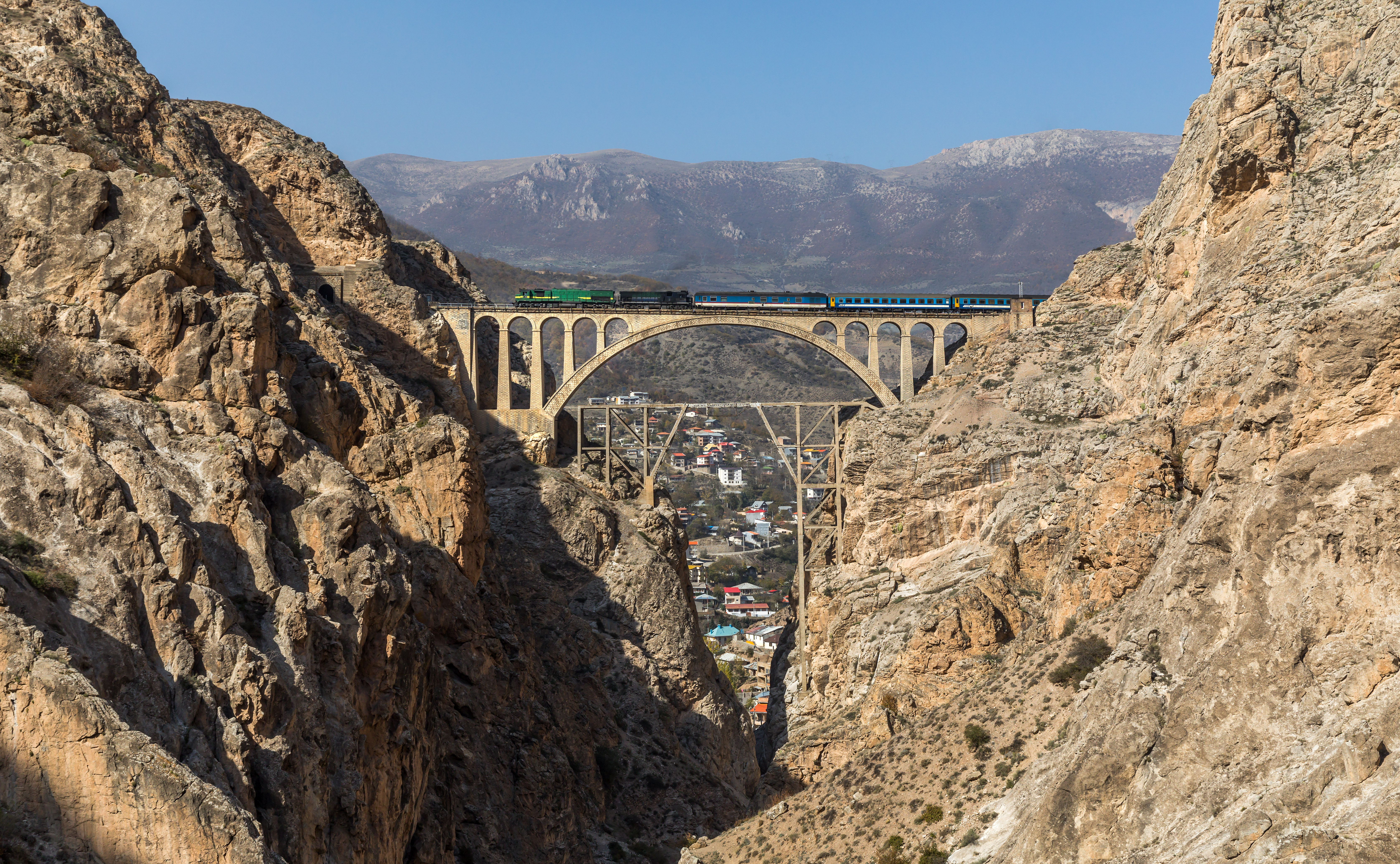 Islamic Republic of Iran Railways' 60-878 (EMD GT26CW-2) crosses the Veresk viaduct with a passenger train from Sari to Tehran, Iran.